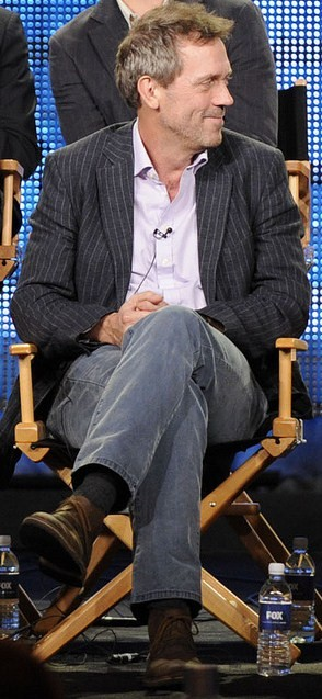 Hugh Laurie during the HOUSE session of the 2009 FOX WINTER TCA Tuesday, Jan. 13 at the Universal Hilton in Universal City, CA.